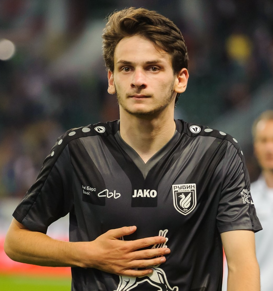 Khvicha Kvaratskhelia with FC Rubin Kazan in a game against FC Lokomotiv Moscow.